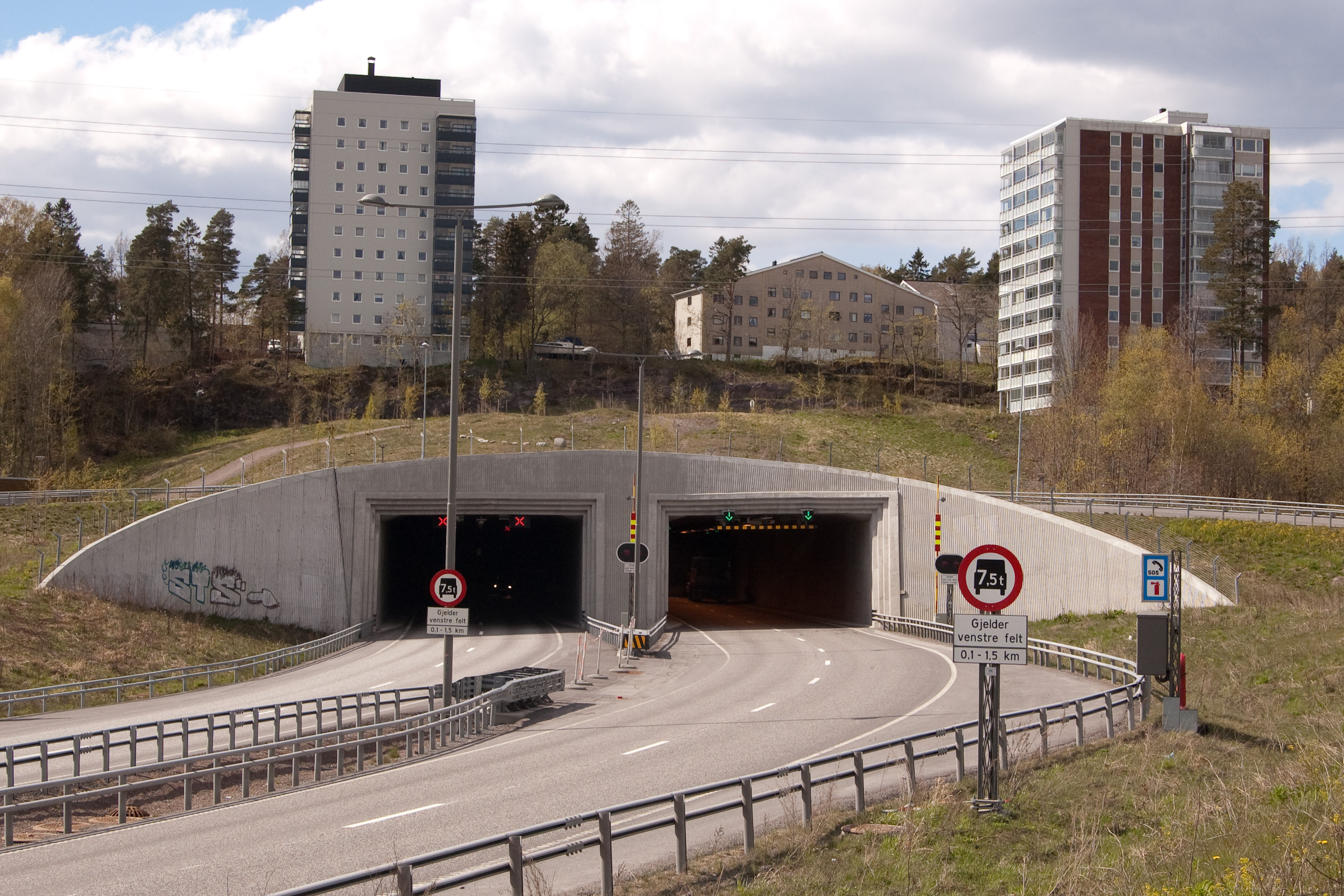 Frodeåstunnelen, Tønsberg, Norway